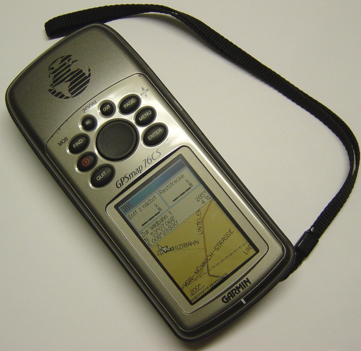 Garmin GPSmap 76CS, handheld GPS receiver, portable GPS device, navigation system